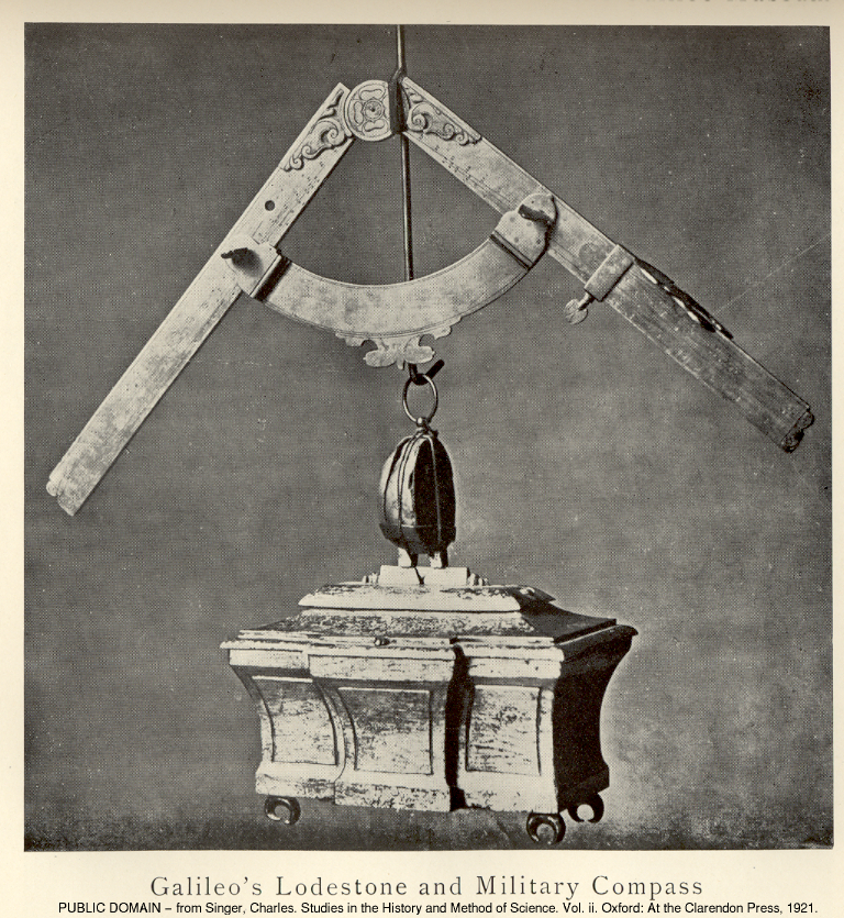 Galileo's lodestone. It is a sector or military compass from which a lodestone is hanging, supporting an iron weight in the shape of a sarcophagus (coffin), belonging to the Italian scientist Galileo Galilei. The iron sarcophagus weighs 15 pounds, the lodestone only 6 ounces. For 400 years the lodestone has held up the weight without losing its strength.